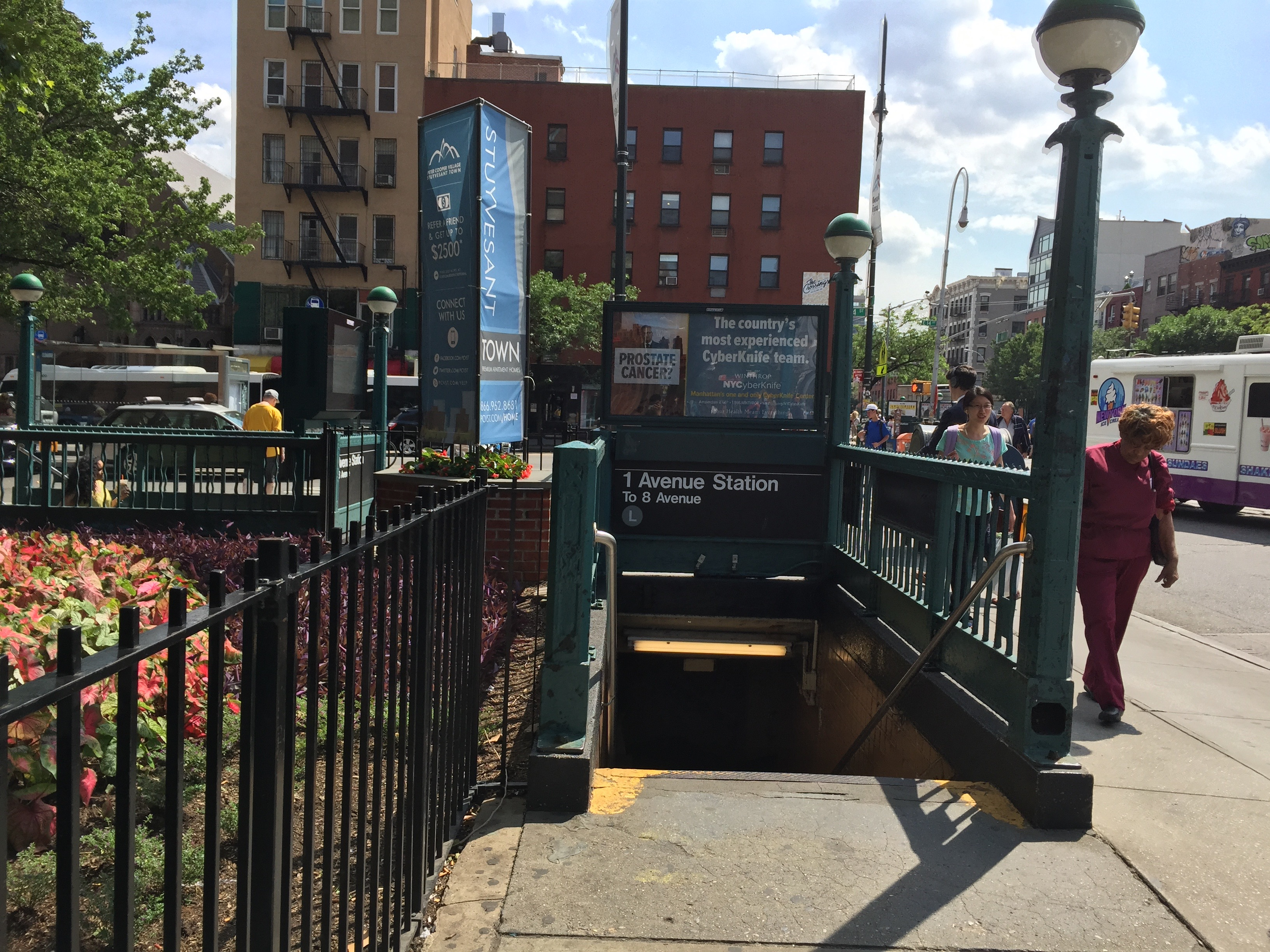 Entrance at NE corner of 14th Street and 1st Avenue to the uptown L platform.